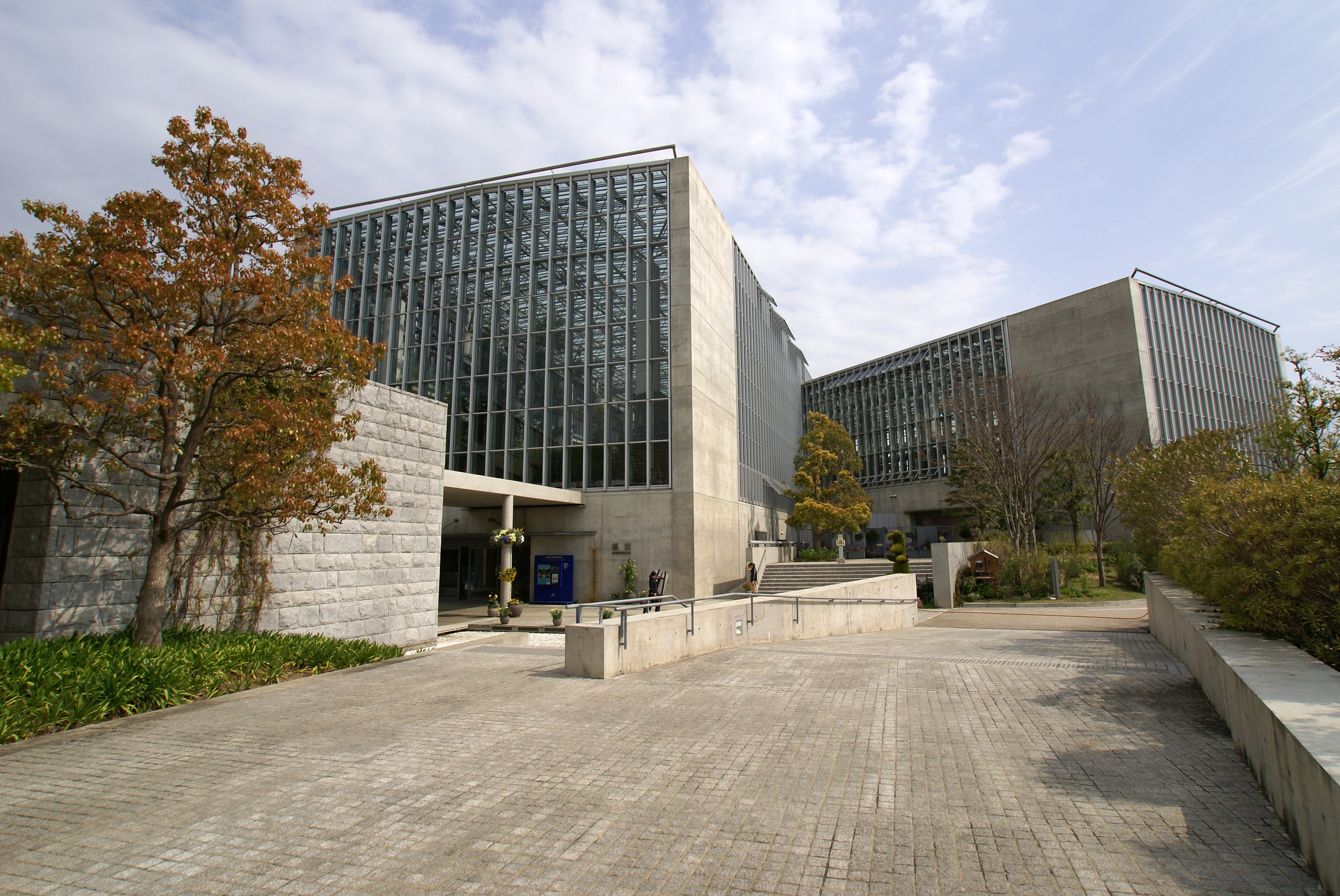 Miracle Planet Museum of Plants of Awaji Yumebutai in Awaji, Hyogo prefecture, Japan